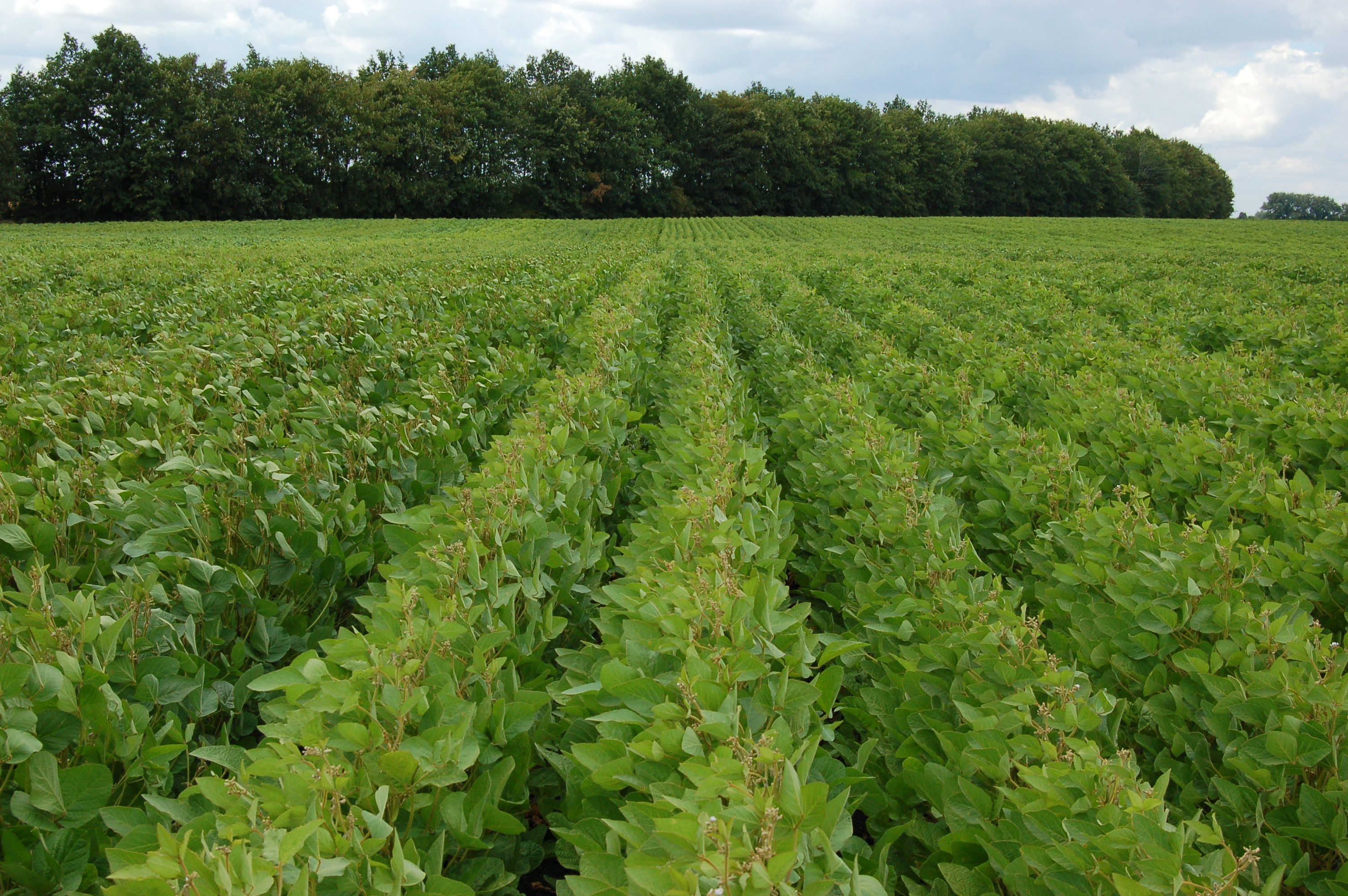 ESTAFETA is sort of SOYBEAN. An ultra-early-ripening variety of grain usage with enhanced drought resistance, lodging resistance, shedding resistance and resistance to diseases and pestst Originator - Plant Production Institute nd. a V.Ya. Yuryev of NAAS. The year of registration in the Plant Variety Register for growing in Ukraine – 2013. Zones recommended for growing: forest-steppe and steppe. Approbation characteristics. Variety – argillosperma. The plant is semi-compressed with thick central stem up to 80 cm, fluff is yellow-brown, flowers are violet. Seeds are oval-spheroid, light-yellow, hilum is in the same colour as arillus, with eye. Mass of 1,000 seeds is 140-150 g. Biological features. The sort belongs to the early-ripening group, the growing season length is 92-97 days. It shows high drought resistance, lodging resistance, shedding resistance, resistance to diseases and pests. It is well-adapted to machine harvest, can be used as a predecessor before winter wheat. The sort is grown for grain. Economic features. In the competitive variety trial carried out by the Plant Production Institute nd. a V.Ya. Yuryev of NAAS (2007–2009 гg.) the yield capacity was 1.53 t/ha, which exceeded the standard Yug 30 by 0.23 t/ha. The potantial yield capacity is 3.5–4.5 t/ha. For the period of 2010–2011 the average yield capacity of the sort Estafeta varied from 1.85 t/ha in woodlands to 2.30 t/ha in forest-steppe. A significant surplus in the yield capacity over the standard was noted in forest-steppe (by 16.8 %) and steppe (by 6.3 %). The maximum yield capacity (2.82 t/ha) was registered in steppe zone at Kiliyskaya State Variety Station (Odesskaya region) in 2010. In 2011 in forest-steppe at Kelmenetskaya State Variety Station (Chernovitskaya region) 5.07 t/ha were obtained. Protein content in grain - 38-40 %, oil content – 21-22 %.